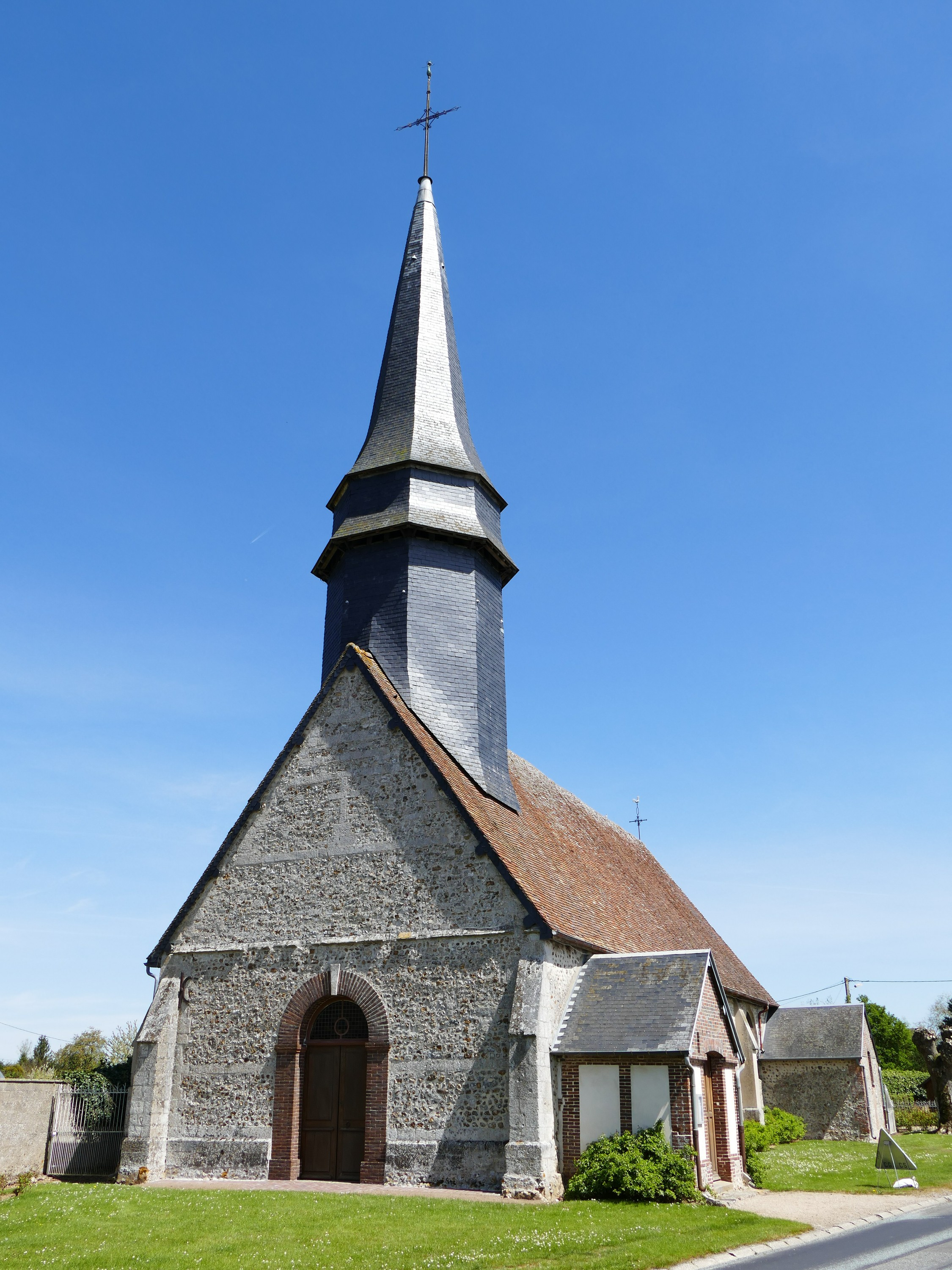 Saint-Hilaire's church in Nogent-le-Sec (Eure, Normandie, France).